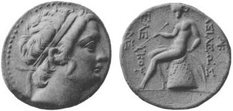 Coin of Seleucus III Ceraunus. Greek inscription reads [Β]ΑΣΙΛΕΩΣ [Σ]ΕΛΕΥΚΟΥ (king Seleucus).